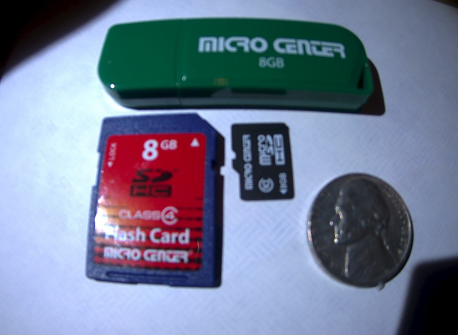 Comparison of three flash media from Micro Center computer store: thumb drive, SD and Micro-SD cards, all having capacity of 8 gigibytes, next to a U.S. nickel coin